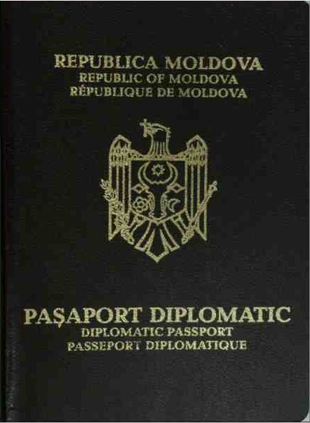 Cover of diplomatic moldovan passport